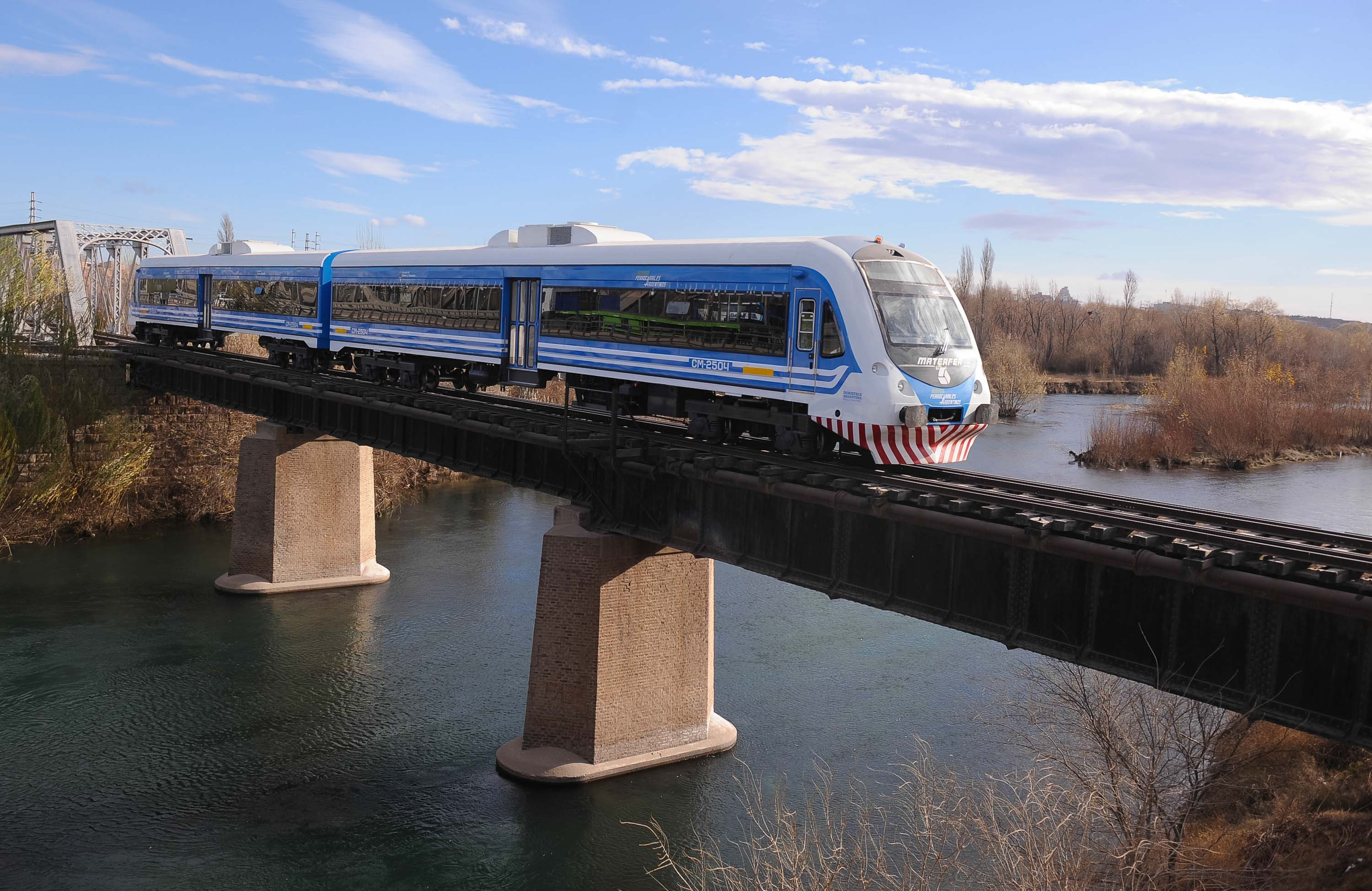 Tren del Valle crossing a river during the preliminary tests.